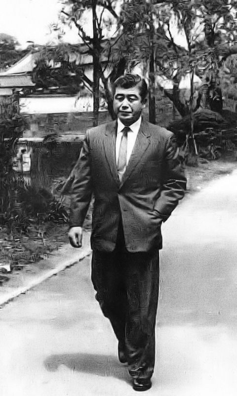 Bumbee Hara